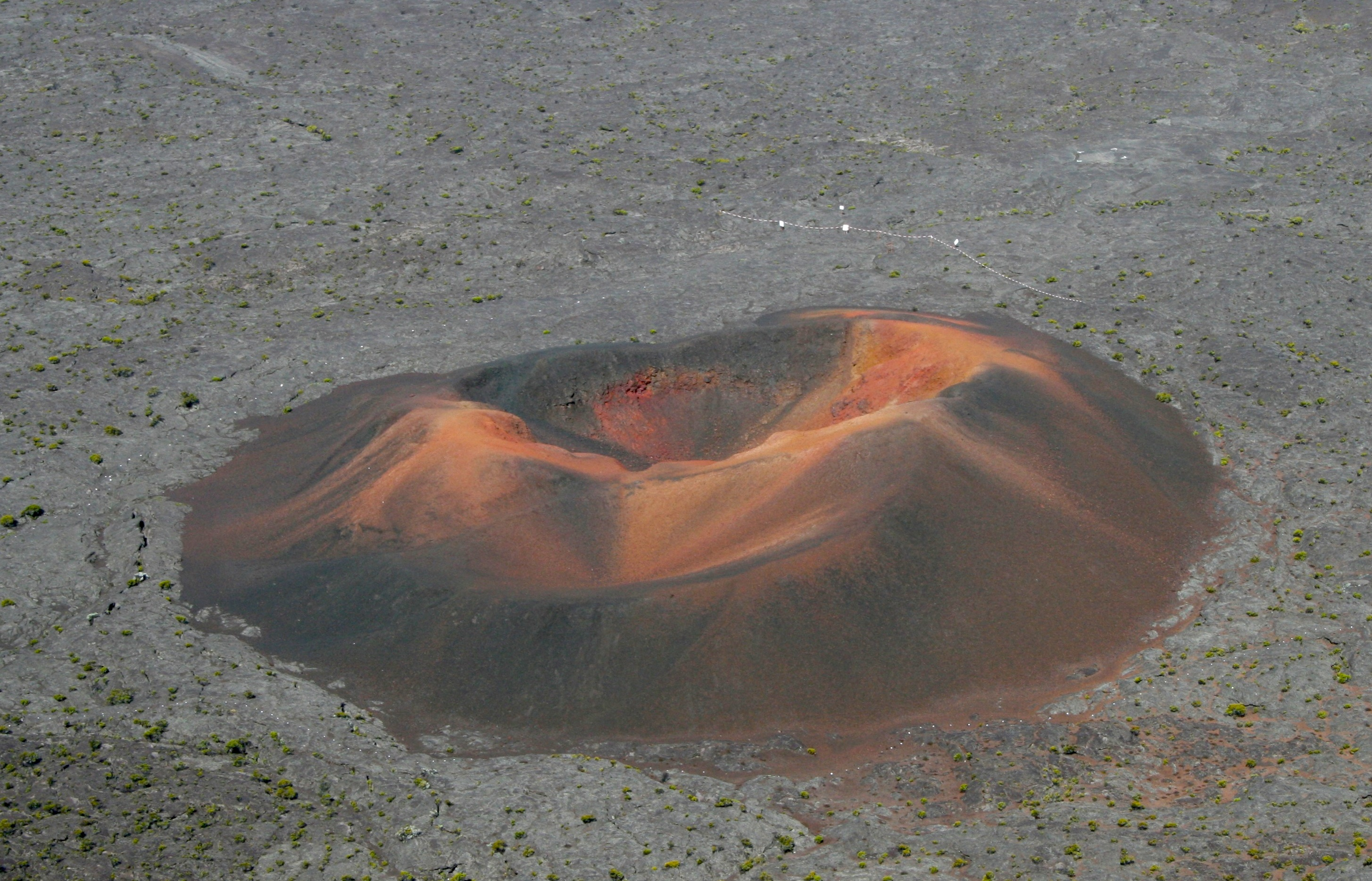 Formica Leo ancient volcanic crater on Réunion Island.